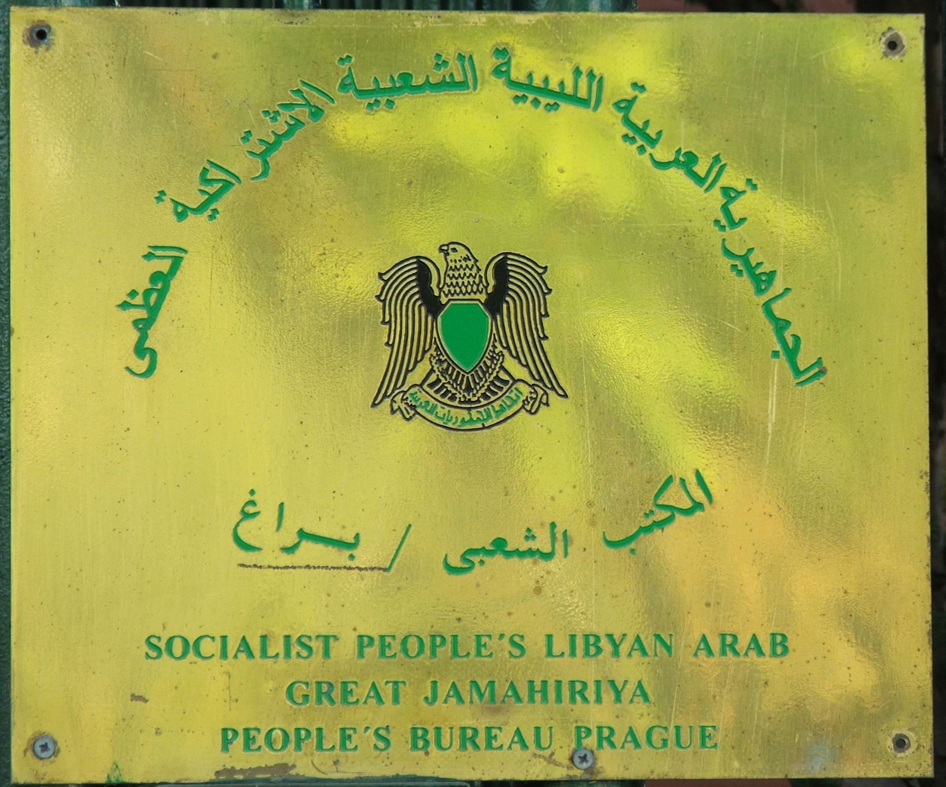 Plaque with coat of arms at the fence of "Socialist People's Libyan Arab Great Jamahiriya People's Bureau" (Libyan embassy) in Prague, Czechia